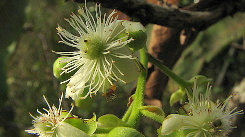 Curatella americana in Entre Rios, Bahia, Brazil